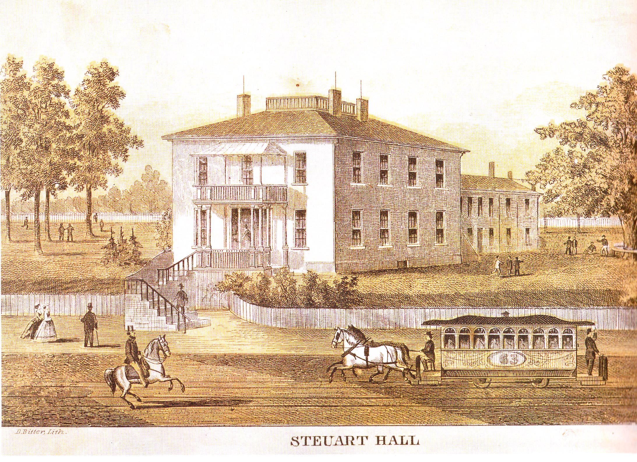 19th century lithograph of Old Steuart Hall